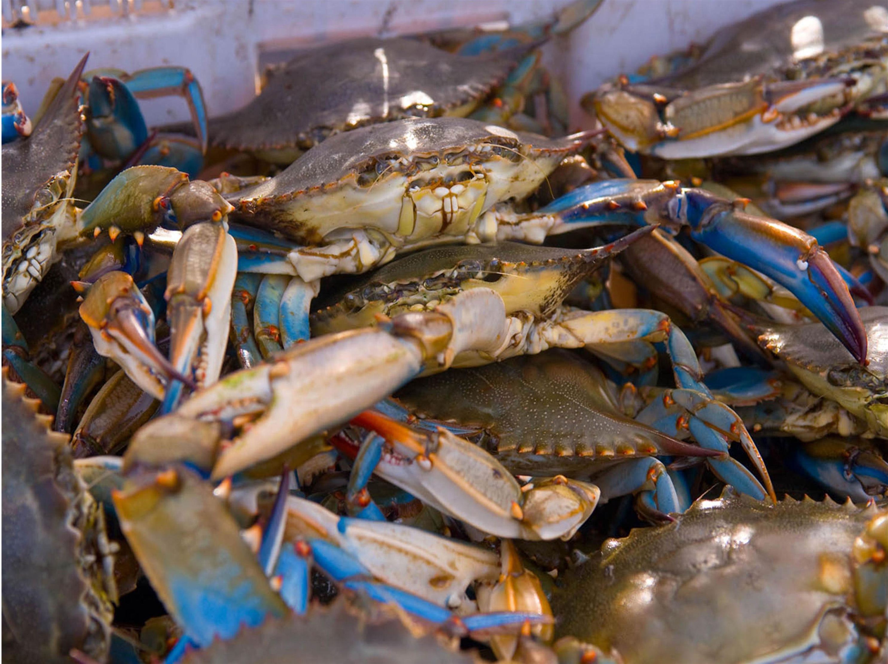 Crab harvest, Louisiana, Gulf Coast Ecosystem Restoration images